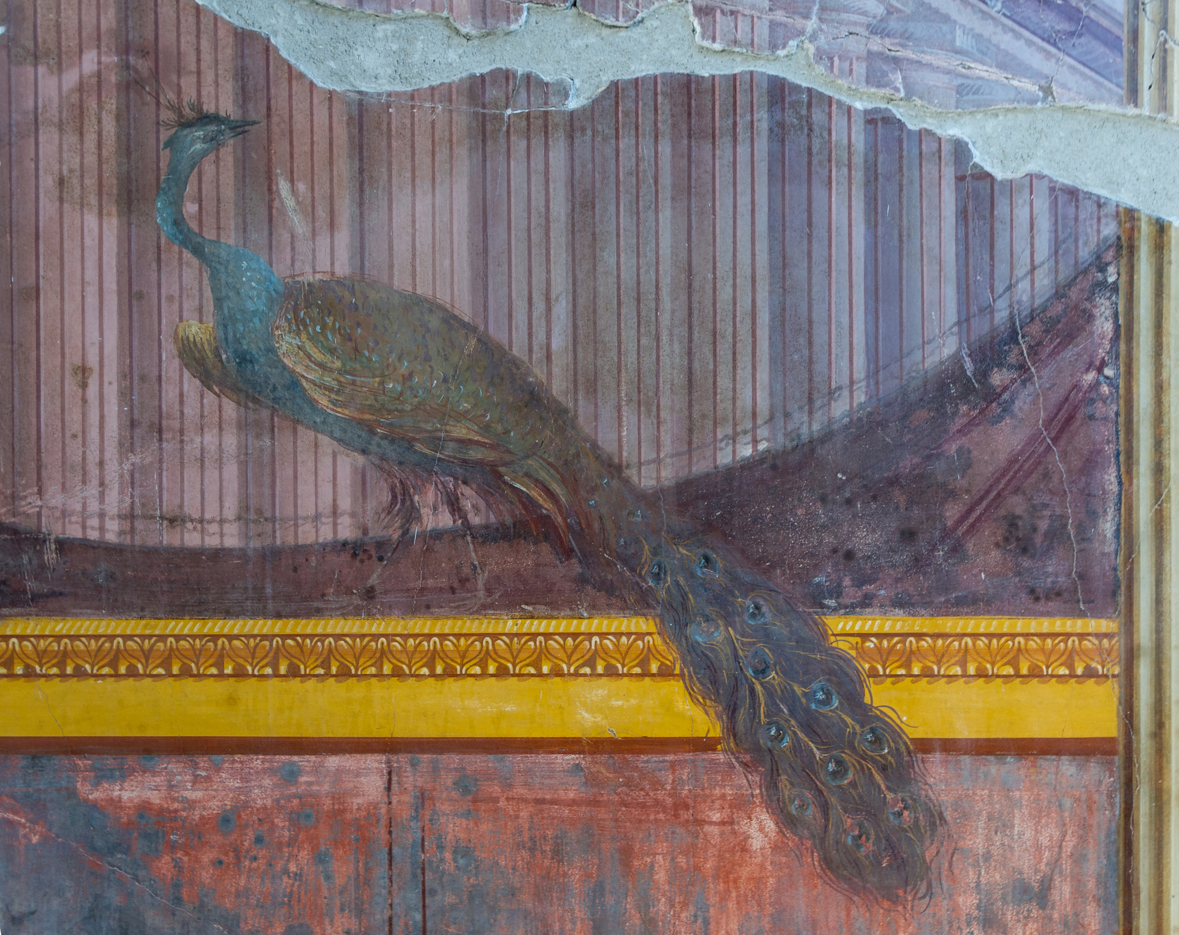 Detail of an in situ ancient roman wall fresco in Oplontis villa of Poppea, Pavo cristatus. Campania, Italy.